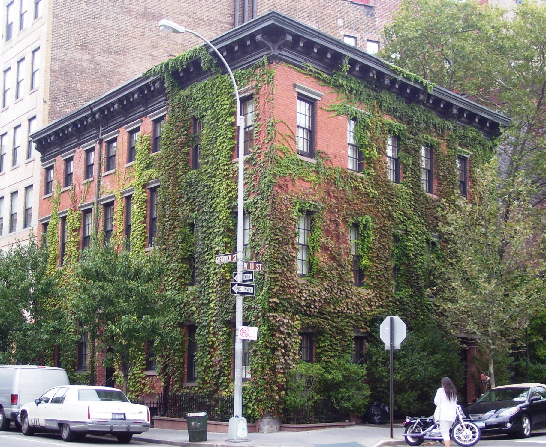 753 (right), 755 (center) and 757 (left) Greenwich Street at the corner of West 11th Street in the Greenwich Village neighborhood of Manhattan, New York City, were built in 1836-37 in the Greek Revival style. They are located within the Greenwich Village Historic District. (Source: "NYCLPC Greenwich Village Historic District Designation Report, volume 2")